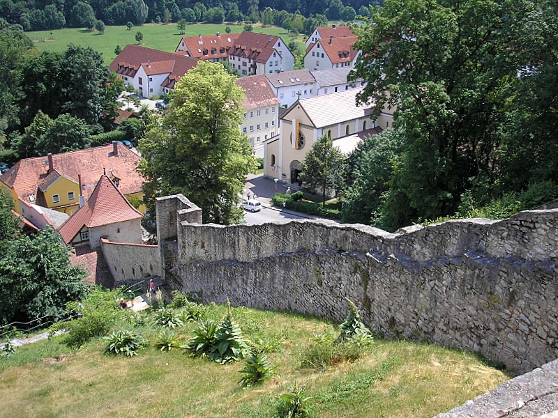 Pappenheim castle (Landkreis Weißenburg-Gunzenhausen, Middle Franconia, Germany). Part of the city walls between castle and the former "Unteres Tor" gate